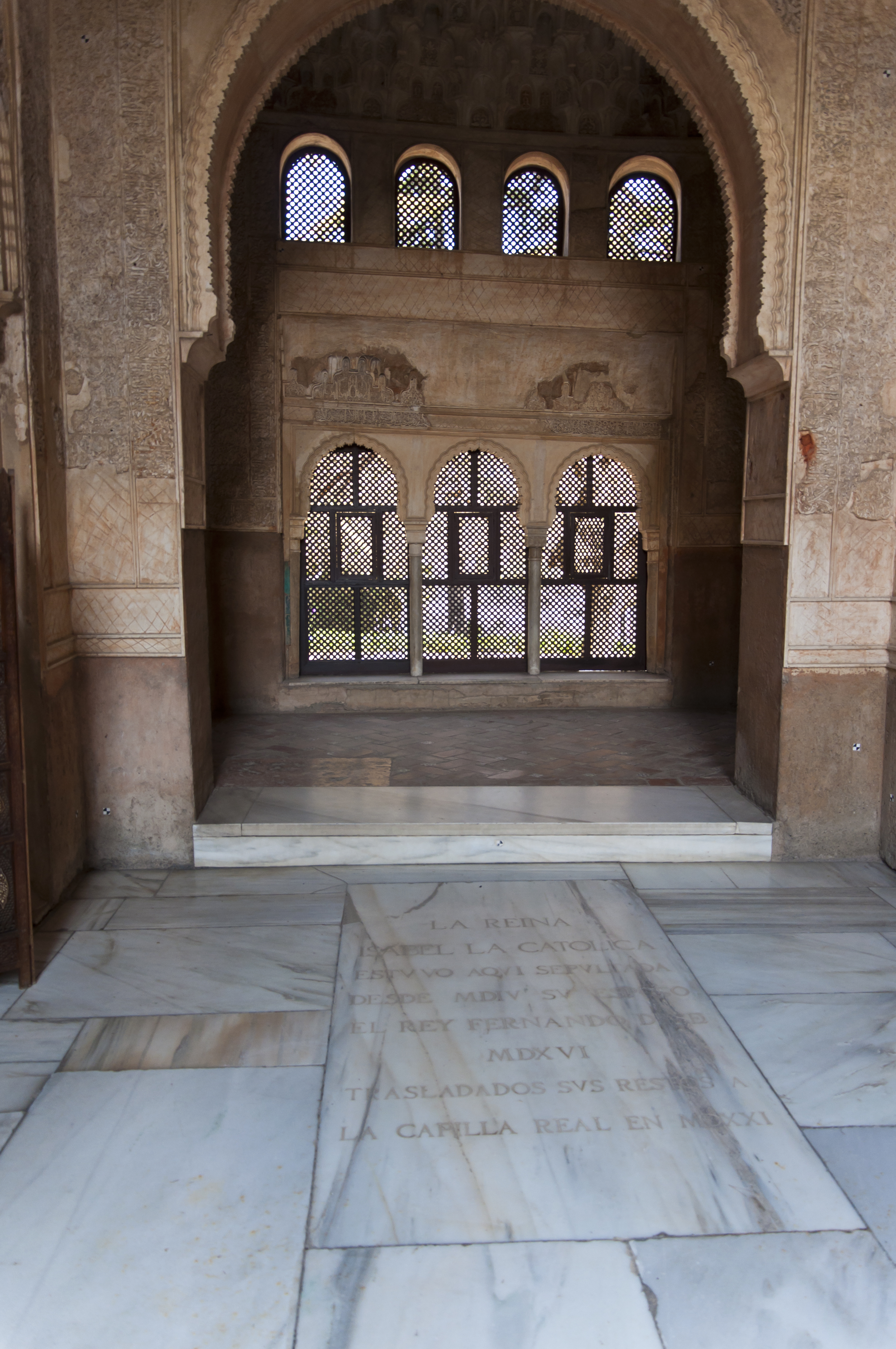 The tomb of queen Isabella I of Castile until 1521, at the former cloister of Saint-Francis at The Alhambra of Granada, now (2011) the Parador